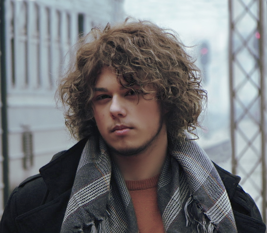 Photography taken during the shooting of Bobi Mojsovski's new music video "Jas i ti